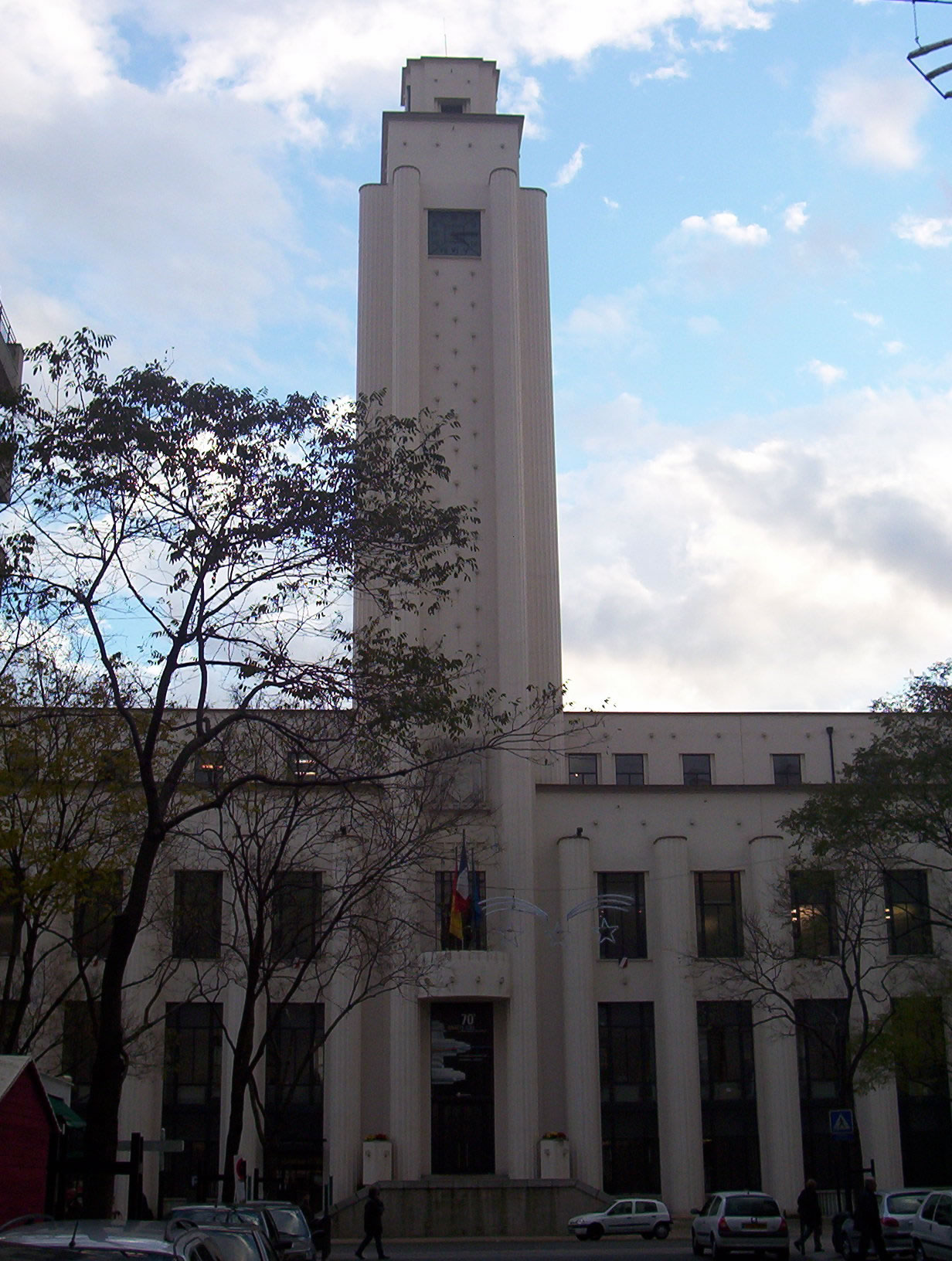 Town hall of Villeurbanne (France).